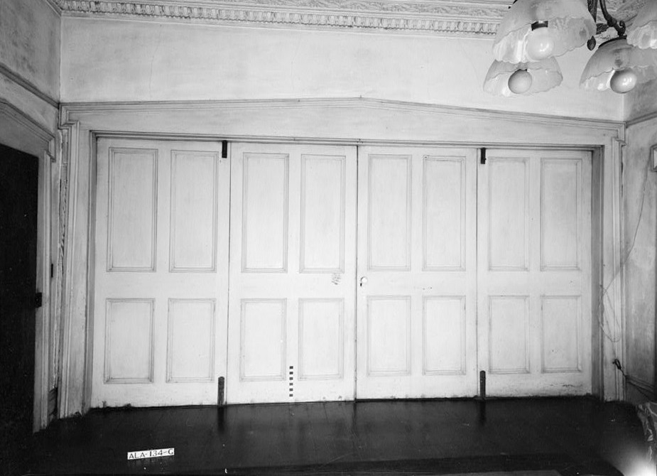 McWilliams House, 400 Clifton Street, Camden, Wilcox, AL. FOLDING DOORS IN W. END OF LIVING ROOM. (Known in 2010 as the McWilliams-Cook House, it was built in 1851.)